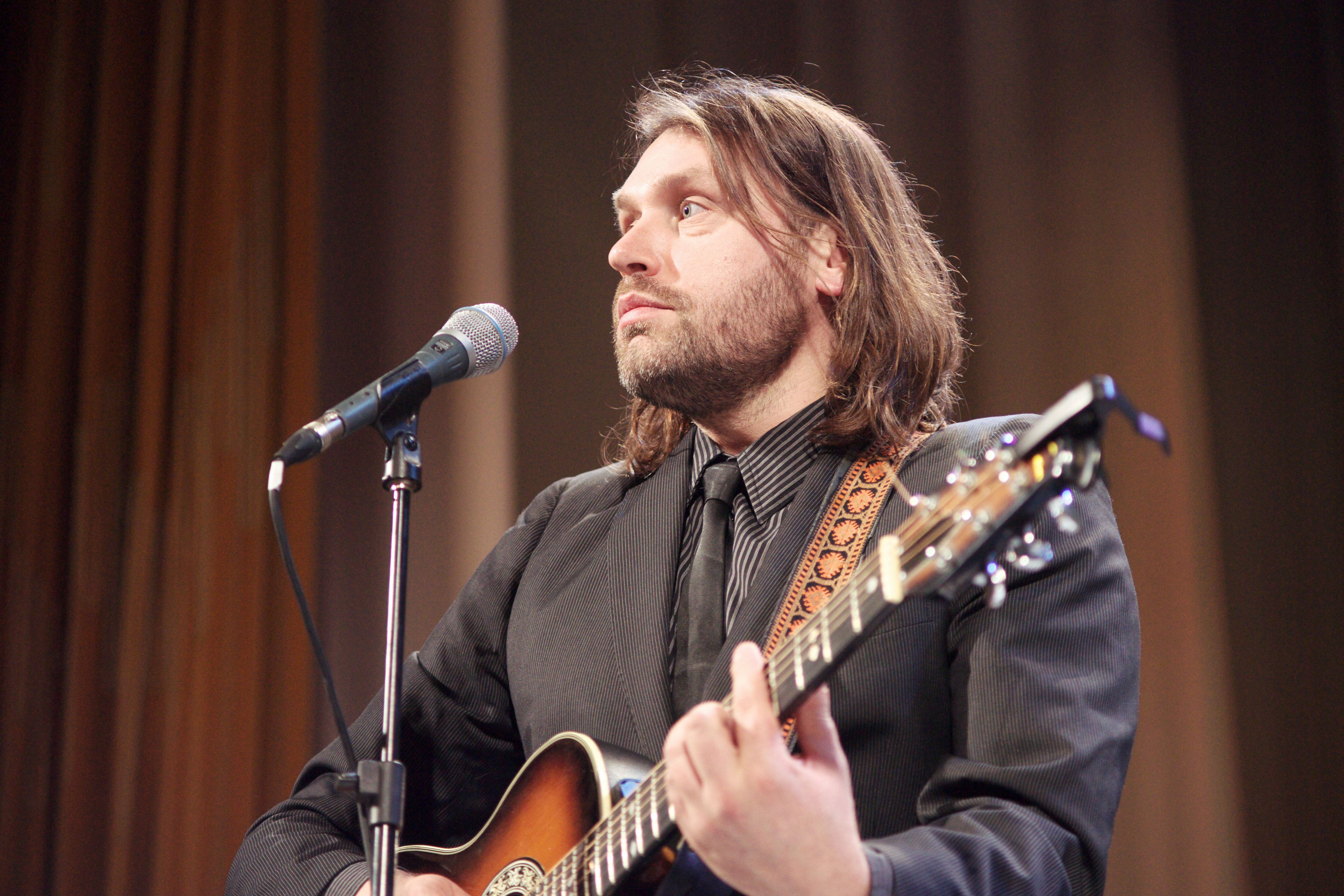 Zmicier Vajciuszkievicz